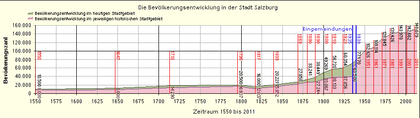 the population developement of the town of Salzburg from 1550 to 2009